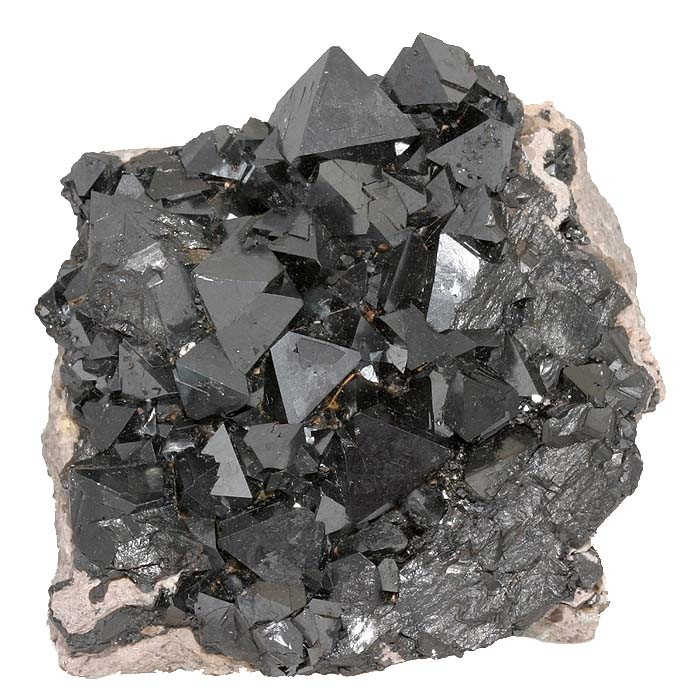 Magnetite Locality: Cerro Huañaquino, Potosí Department, Bolivia (Locality at ) Size: 6 x 5.8 x 2.6 cm. A recent batch of magnetite specimens from Bolivia was exceptional in the size of the crystals, their sharpness and luster, and the absence of the typical corroded, oxidized crystals that can sometimes detract. These crystals measure to over 1 cm on edge, 1.5 cm tip-to-tip.